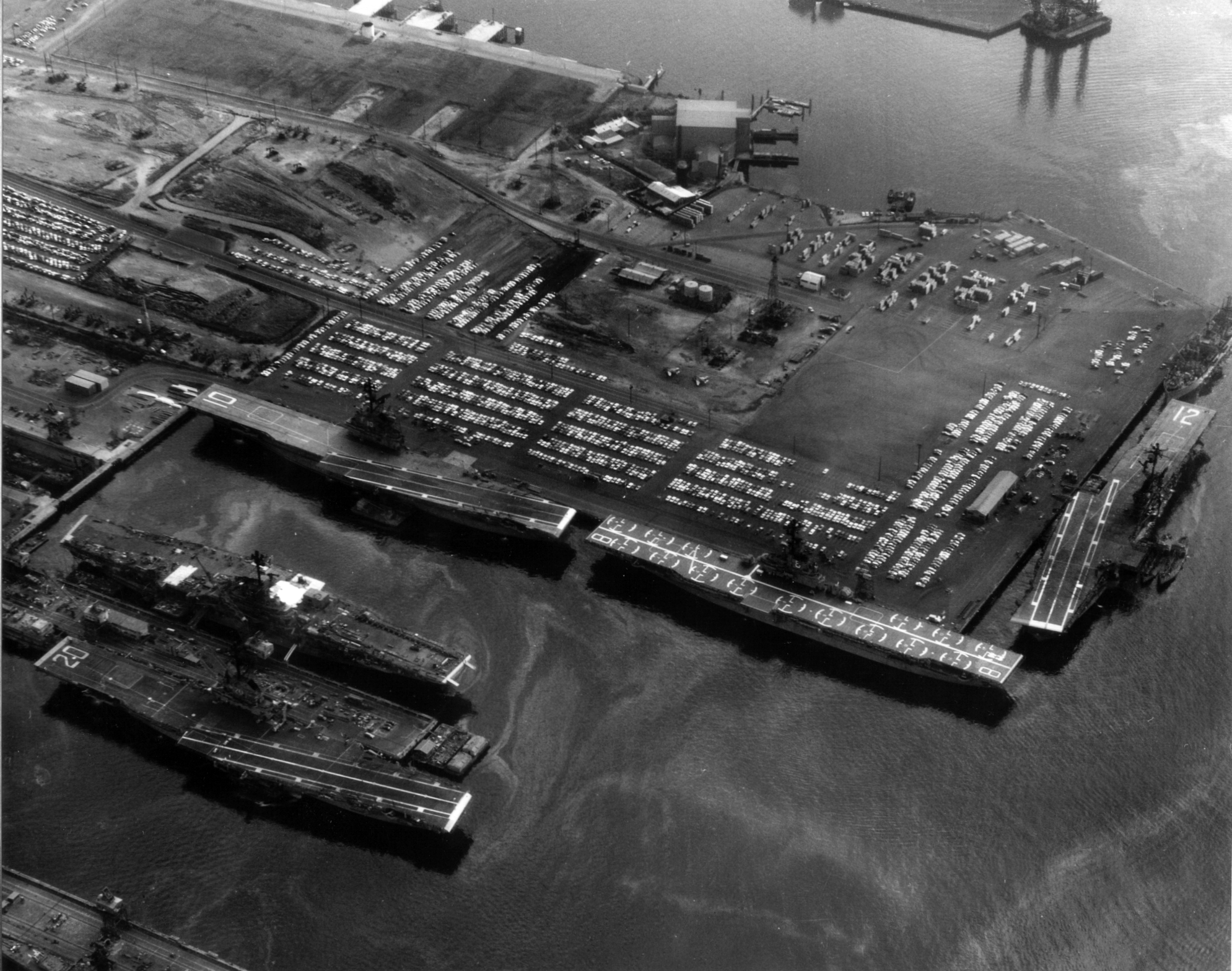 Five U.S. Navy Essex-class aircraft carriers at the Long Beach Naval Shipyard, California (USA), on 2 August 1966: USS Bennington (CVS-20), USS Bon Homme Richard (CVA-31), USS Yorktown (CVS-10), helicopter carrier USS Valley Forge (LPH-8, ex CV-45), and USS Hornet (CVS-12).